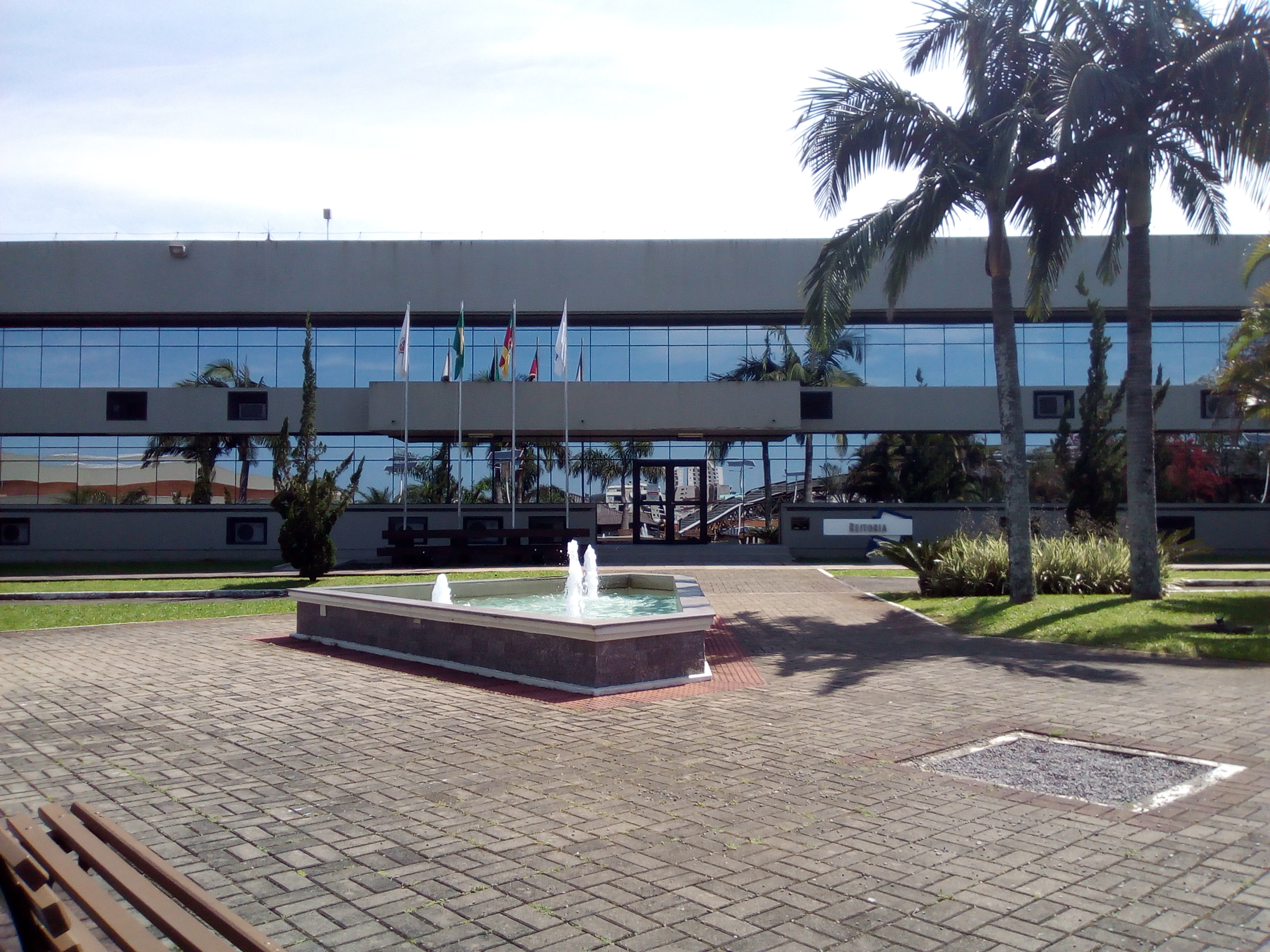 Rectory, Universidade de Santa Cruz do Sul